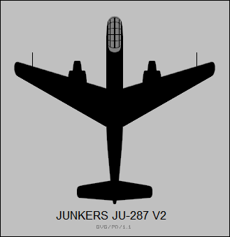 Plan view sihouette of the Junkers Ju 287 V3